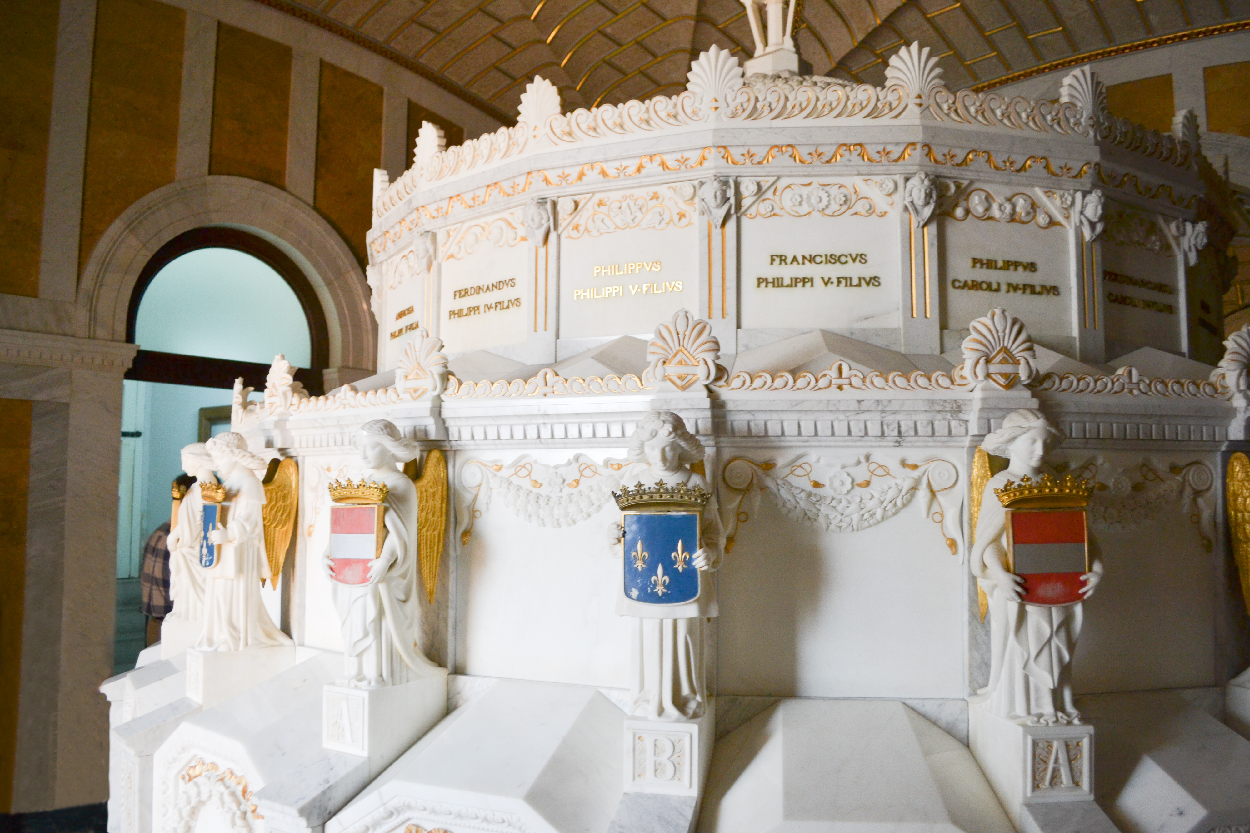 Pantheon of the Infantes - Chapel 6